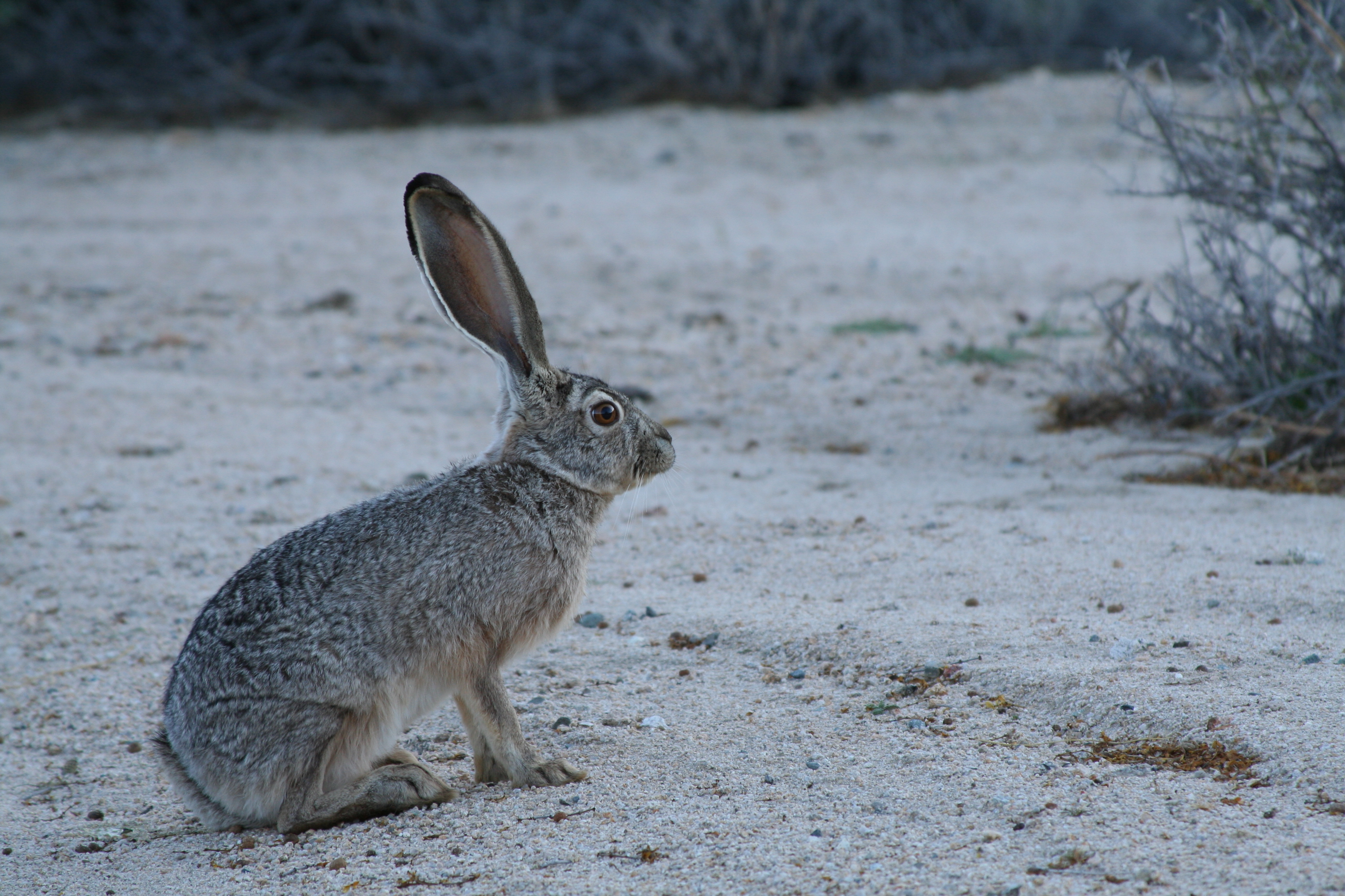 Photo of a black-tailed jackrabbit